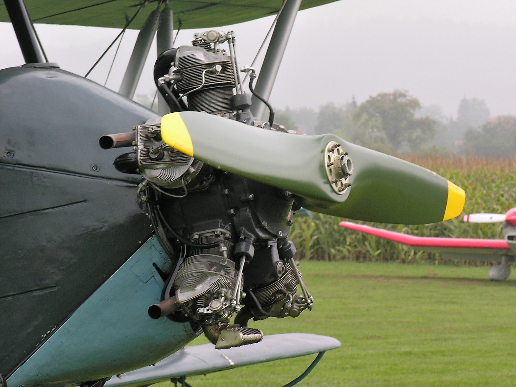 Germany, Baden-Württemberg, Polikarpov Po-2 HA-PAO at the air show in Hilzingen 2006